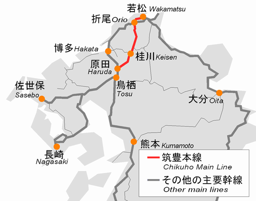 Map of Chikuho Main Line , Kyushu Japan.